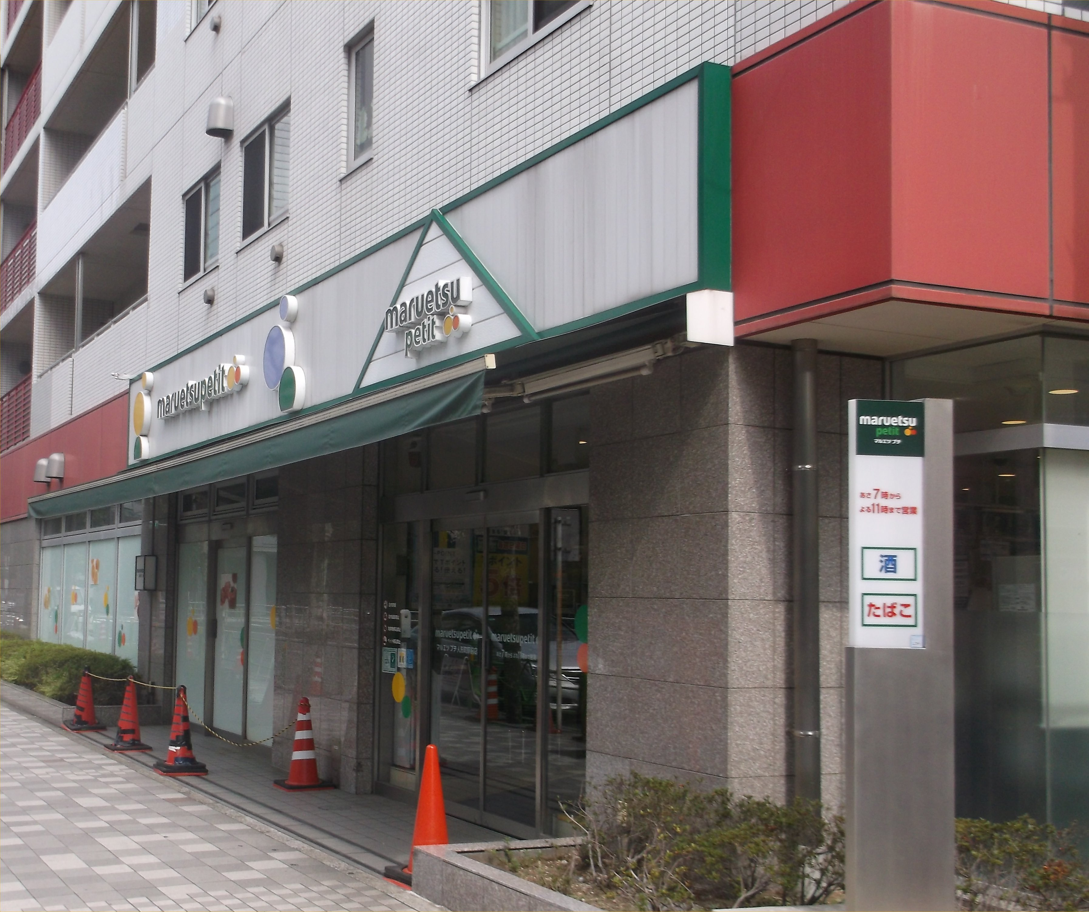 A photo of Maruetsu Petit(a supermarket in Tokyo.) Ningyochoekimae branch shop,Nihonbashiningyocho,Chuo-ku,Tokyo,Japan.